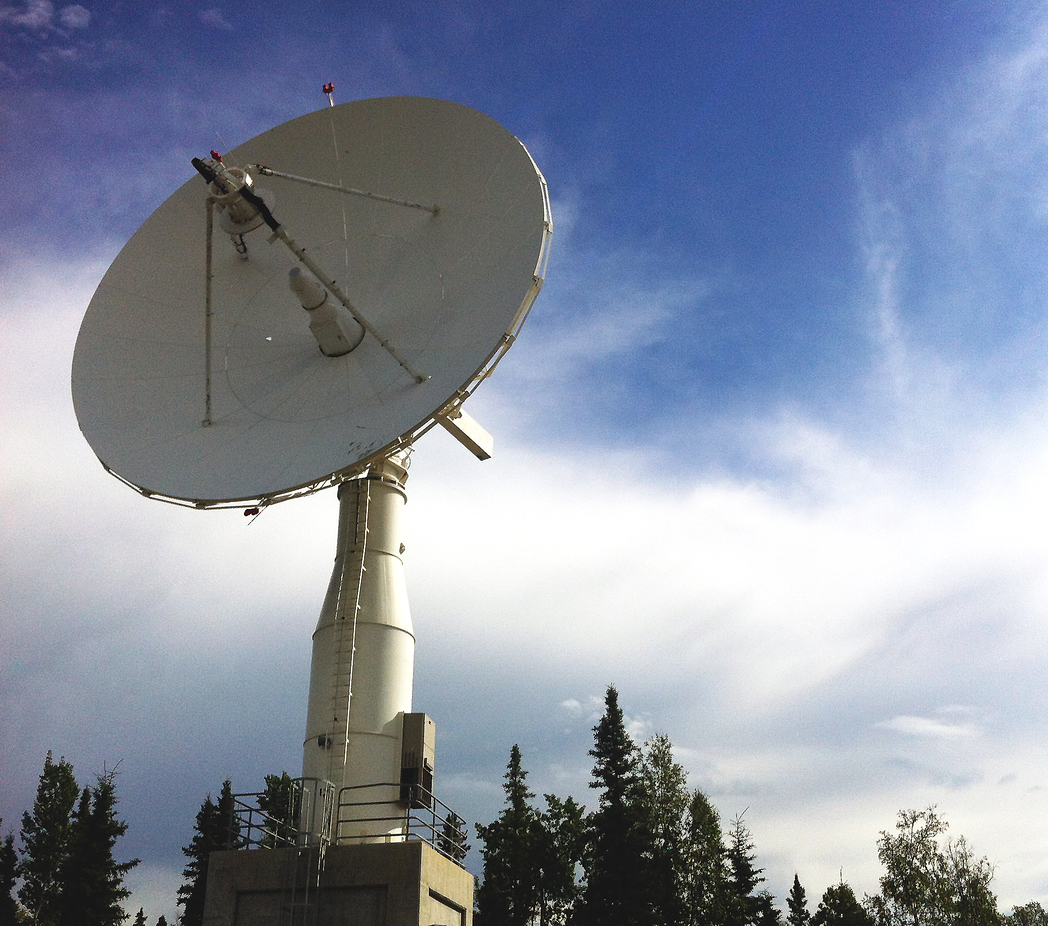 11 meter antenna